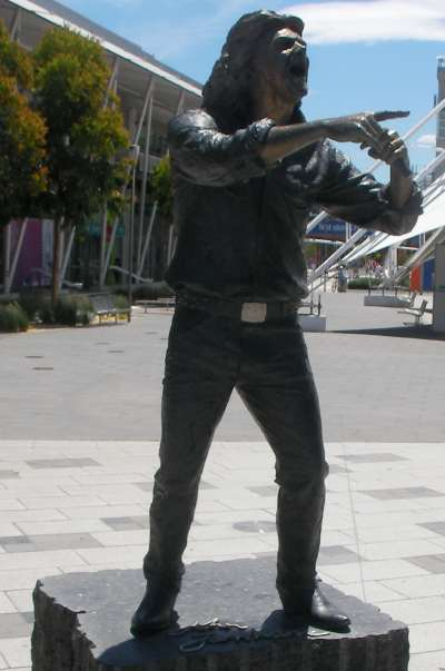 Statue of John Farnham by Peter Corlett at Waterfront City, Melbourne Docklands